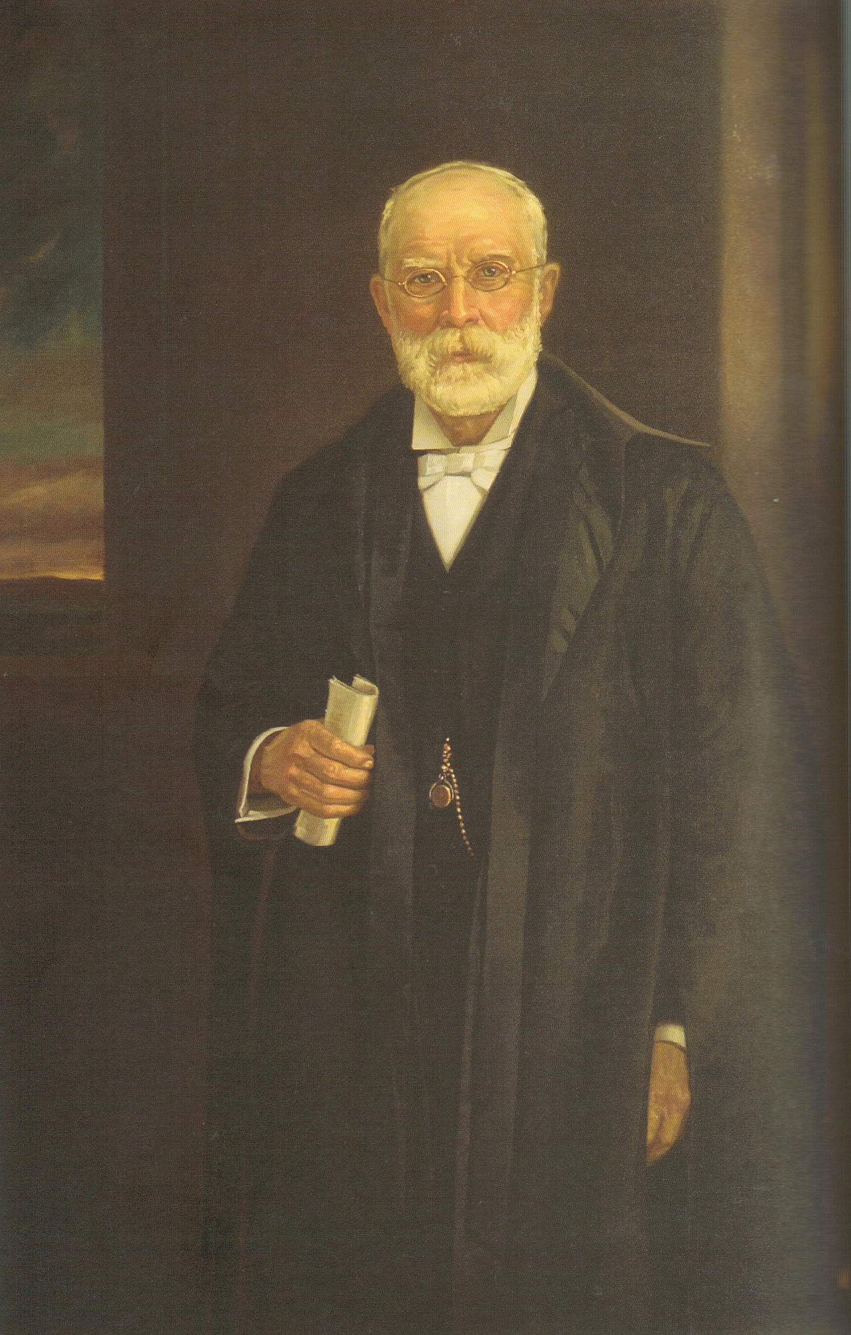 William Eakin painted by Victor A. Long in 1912.